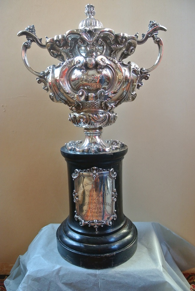 Portuguese Grand Prix cup 1951 - Pierre Meyrat